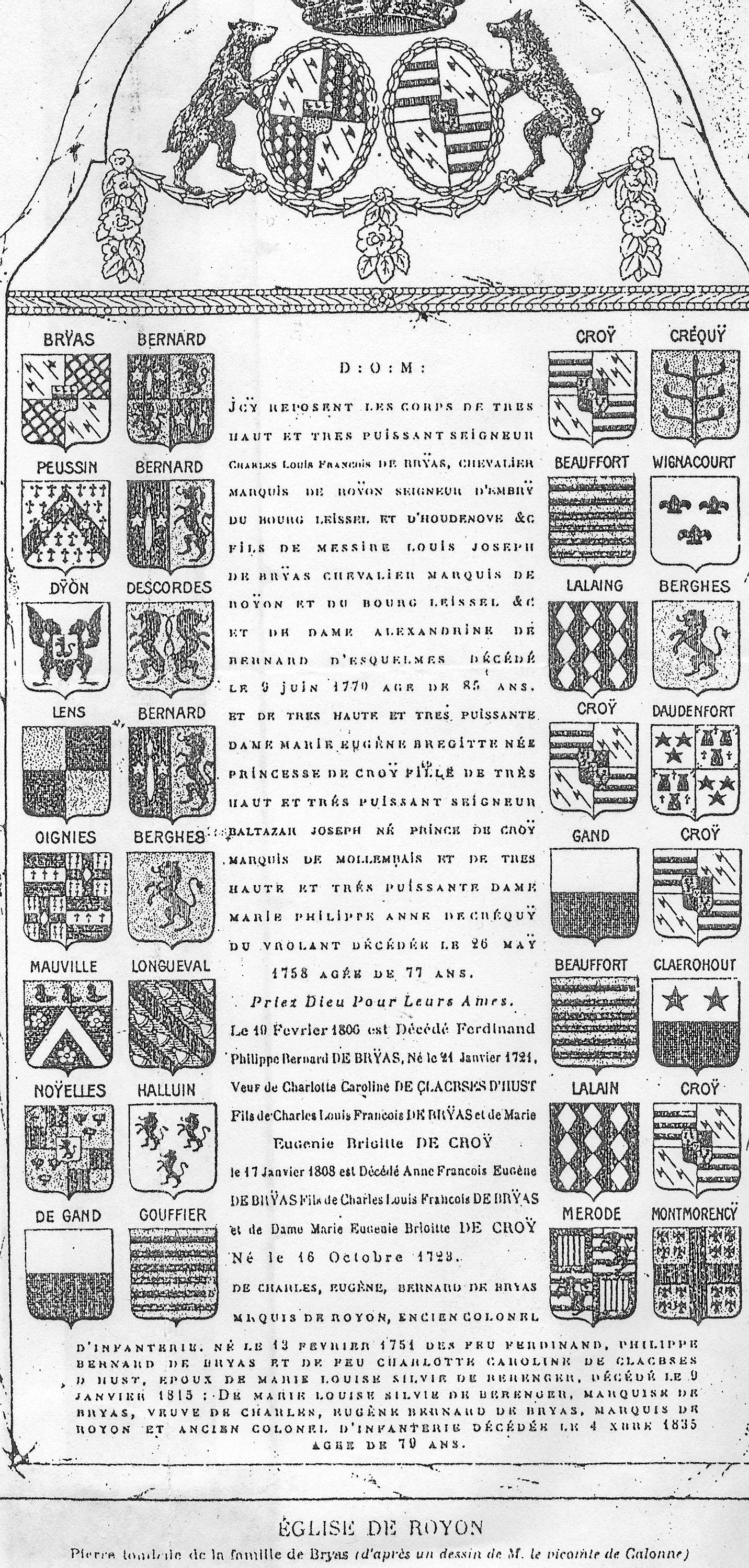 Royon church : tomb of De Ryas de Royon family